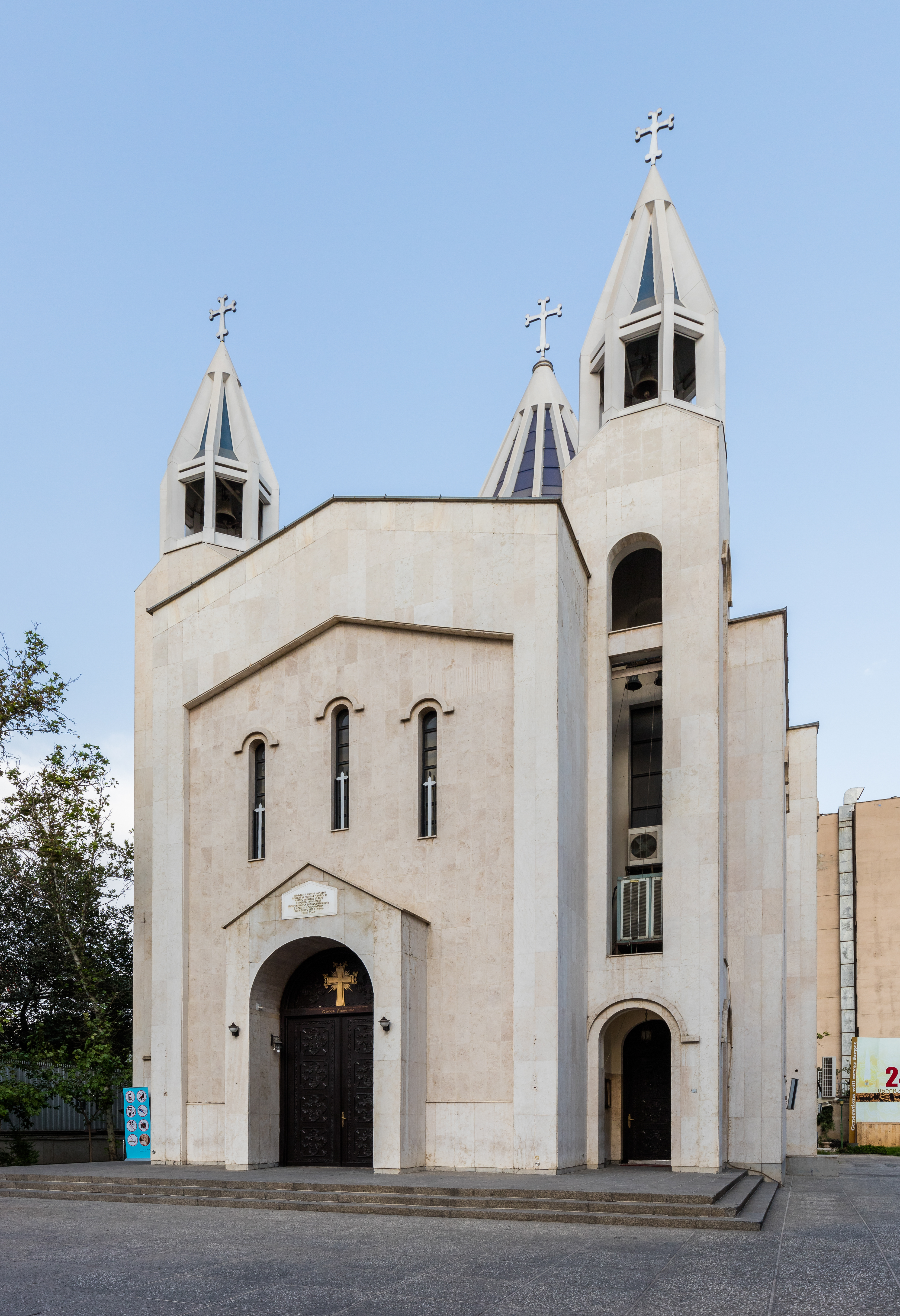 St. Sarkis Cathedral, Tehran, Iran